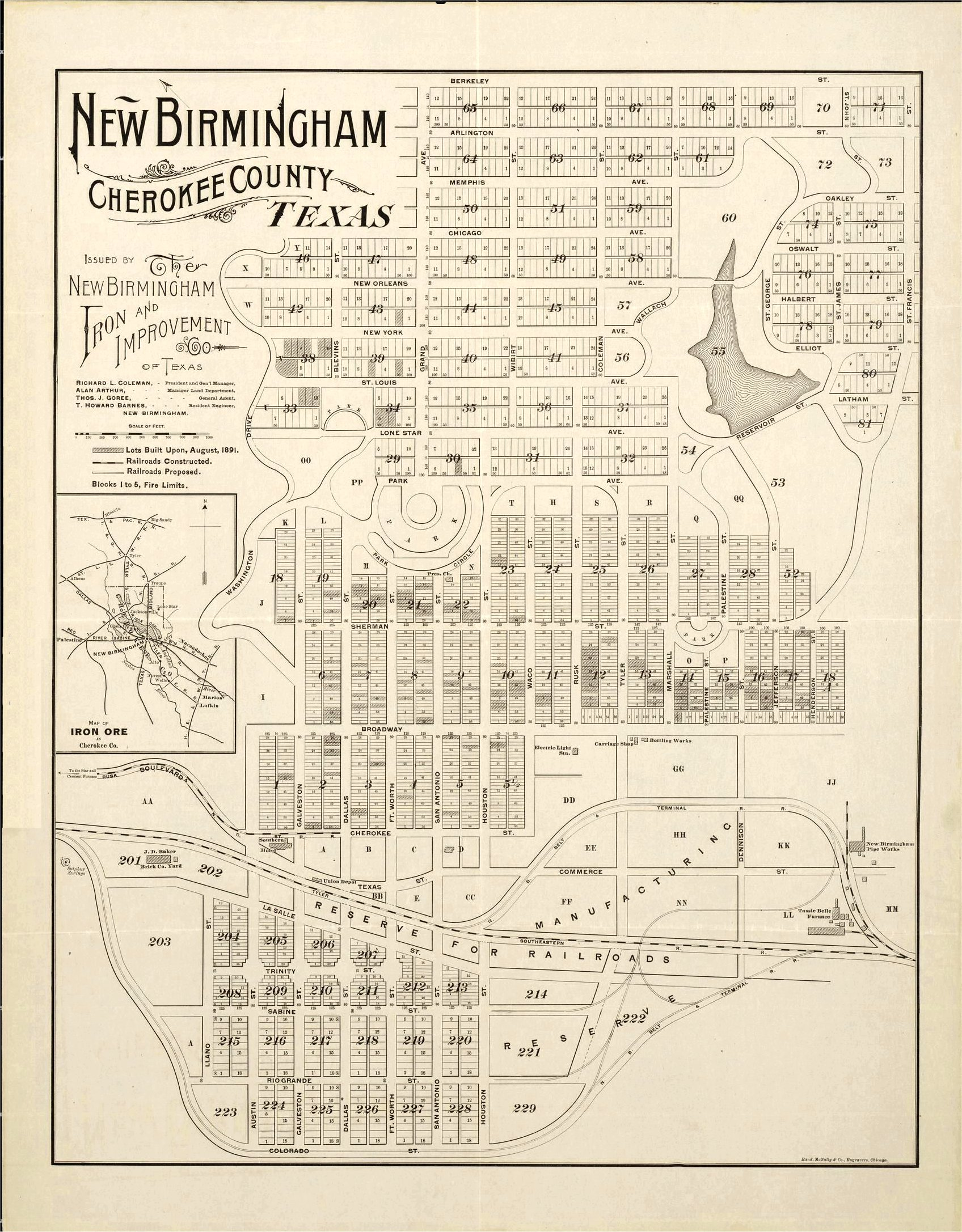 Plat of planned town-site for New Birmingham, Texas